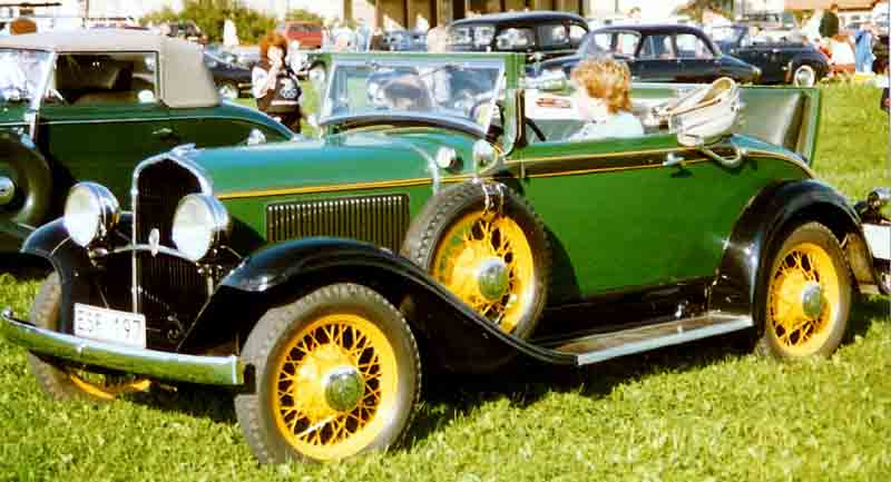 De Soto Series SA UPE Six Convertible Coupé 1931